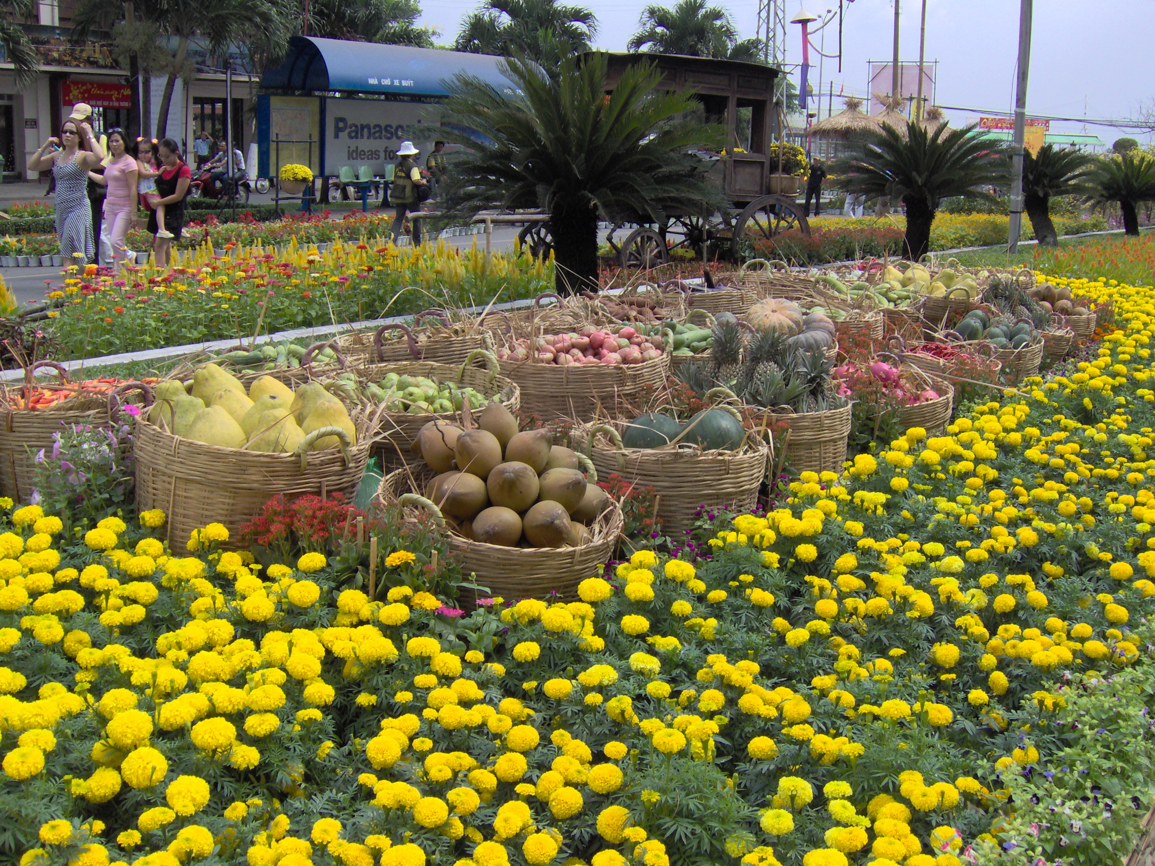 Fruits of southern Vietnam on display on Nguyen Hue Street in Ho Chi Minh City during Tet. Taken and first uploaded to the Vietnamese Wikipedia by User:Tho nau.